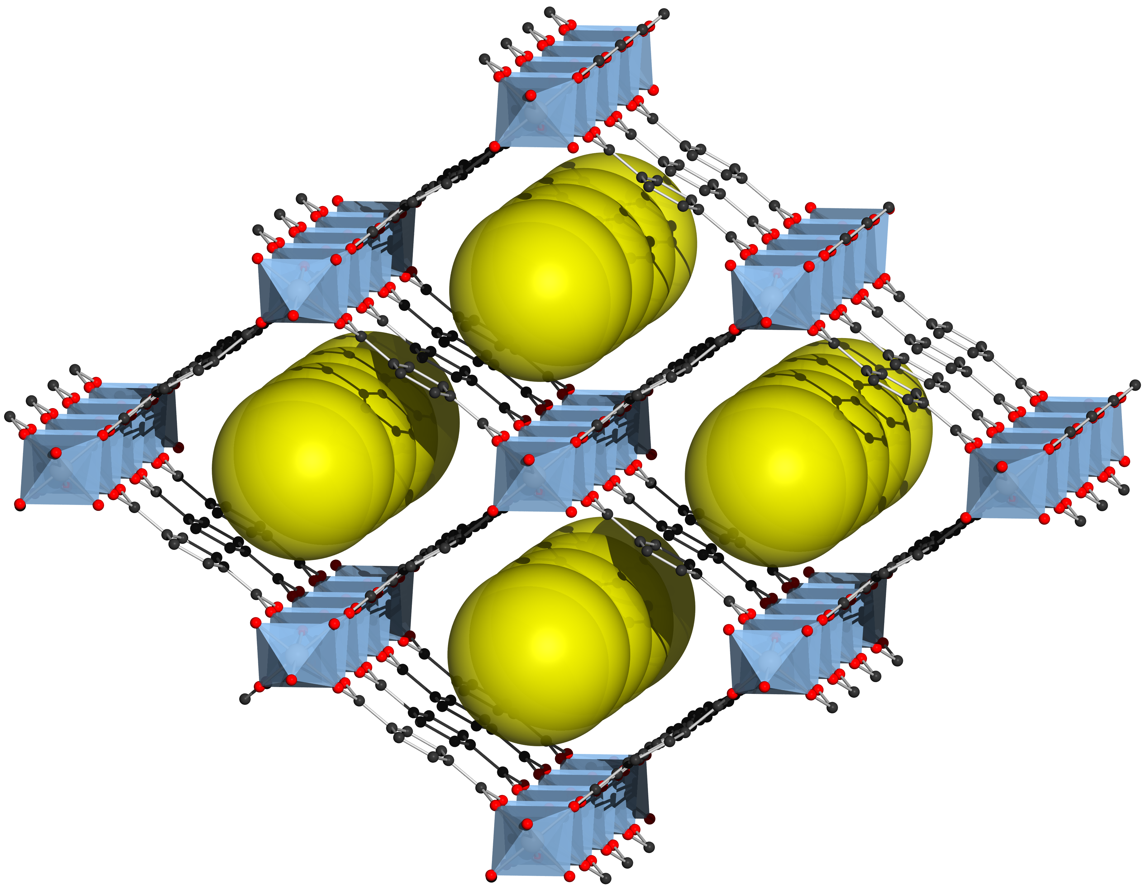 crystall struchture of MIL-53_ht with yellow balls